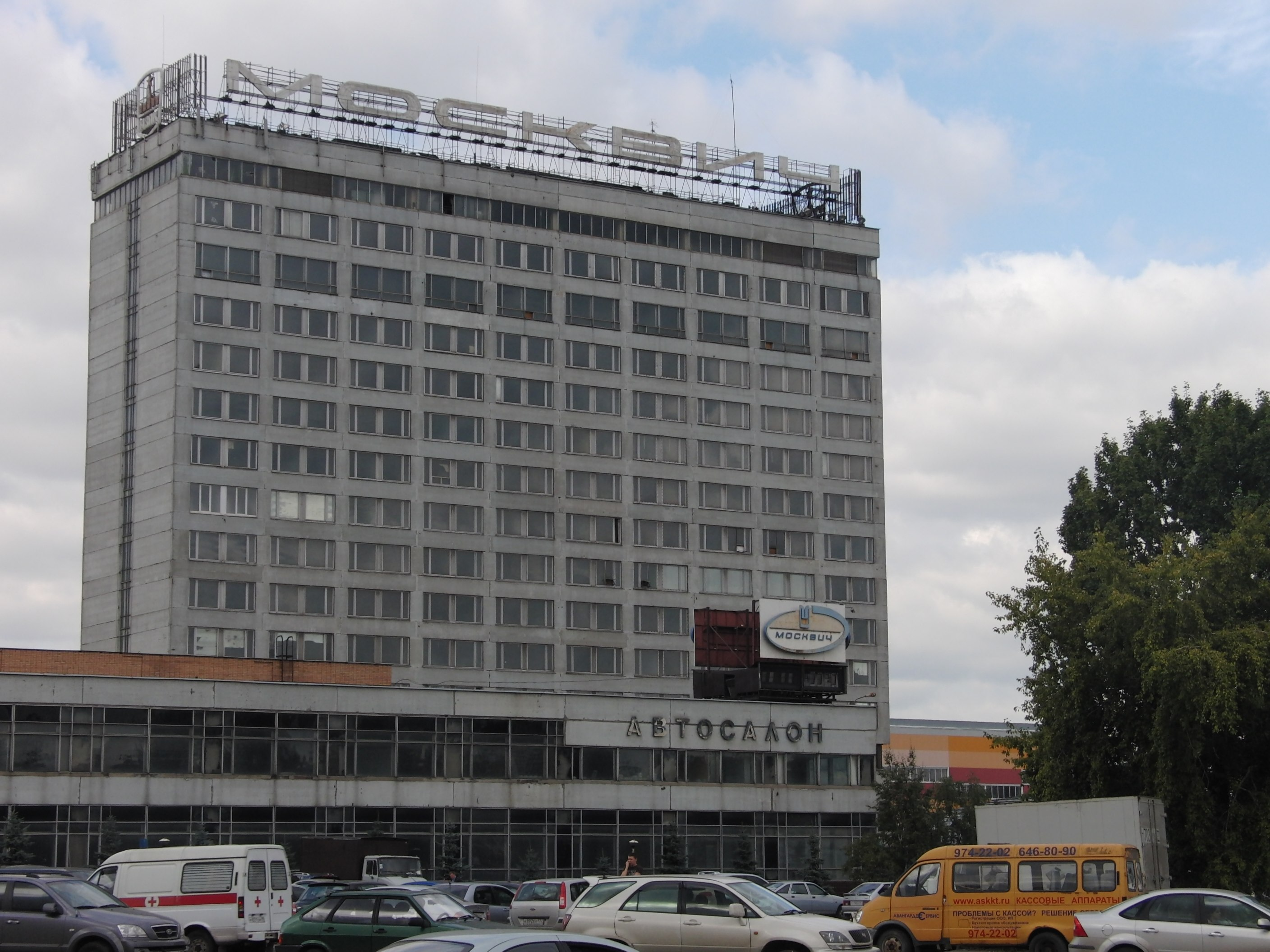 Abandoned Moskvitch headquarters